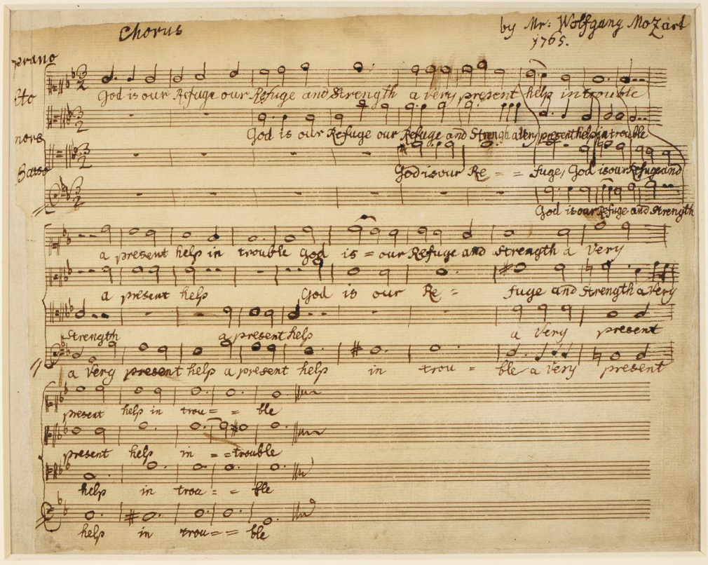 Original manuscript of "God is our Refuge"